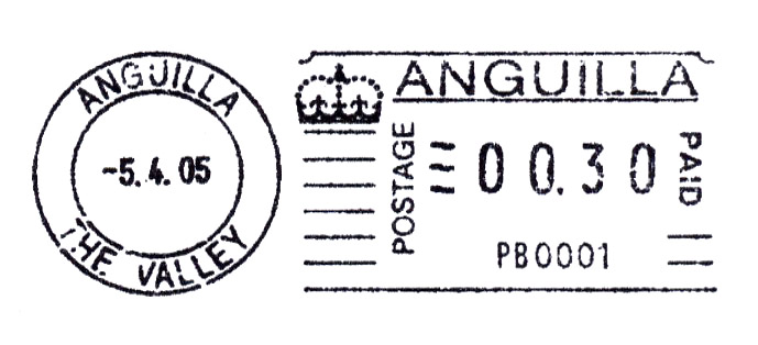 Meter stamp catalog image, Anguilla type 2